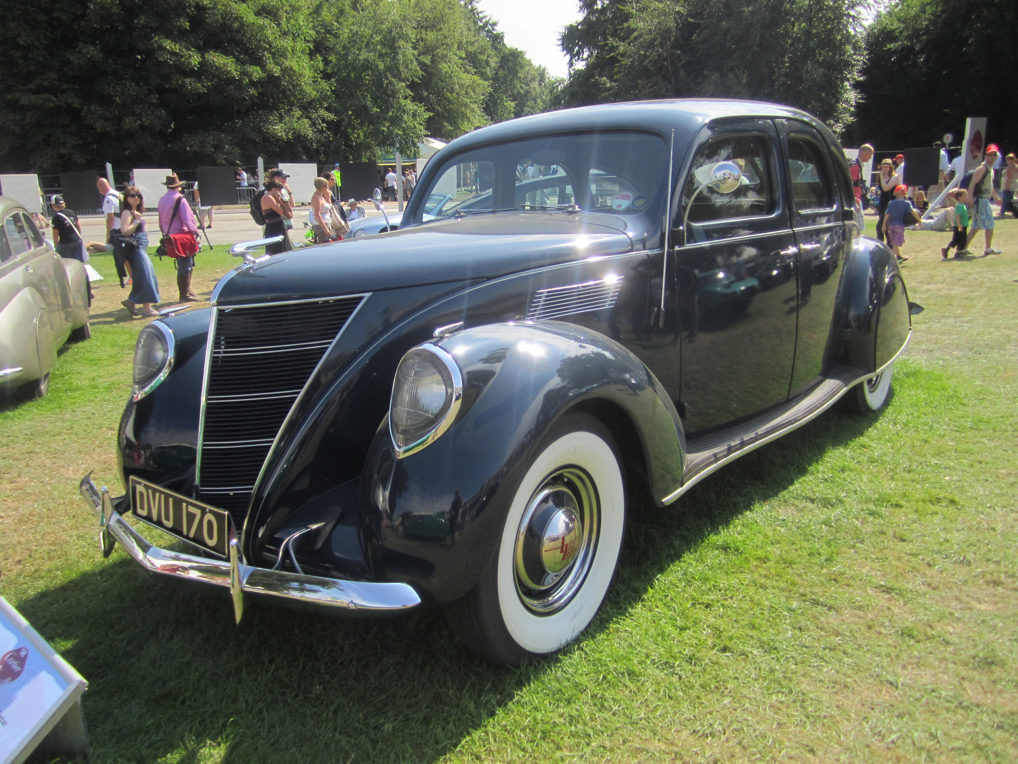 Taken at the Goodwood Festival of Speed England 2011 Cartier Style Et Luxe Concours D'elegance